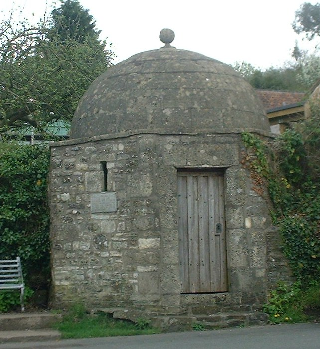 Parish lock-up, Publow Lane, Pensford, Somerset, seen from the west